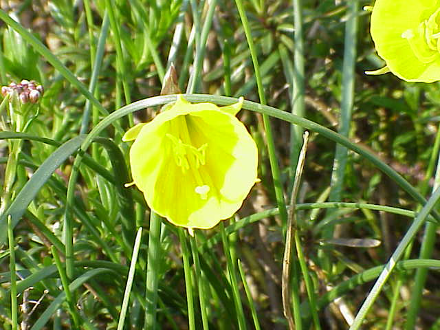 Species: Narcissus bulbocodium bulbocodium Family: Amaryllidaceae Image No. 1